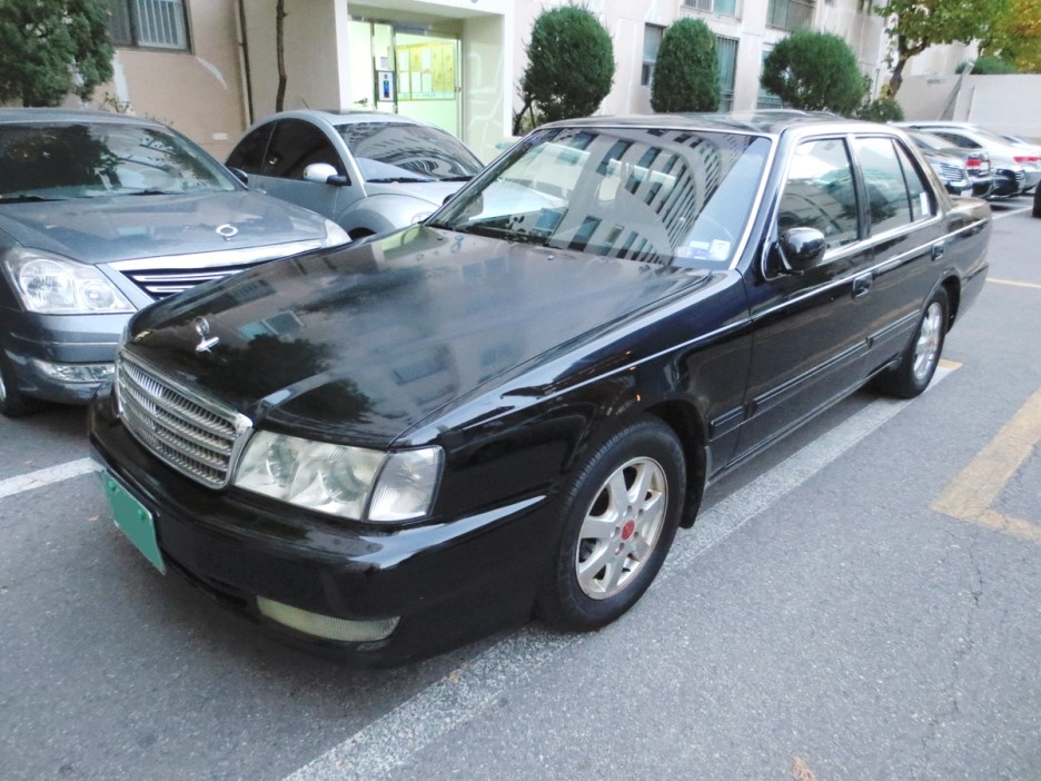 kia potentia